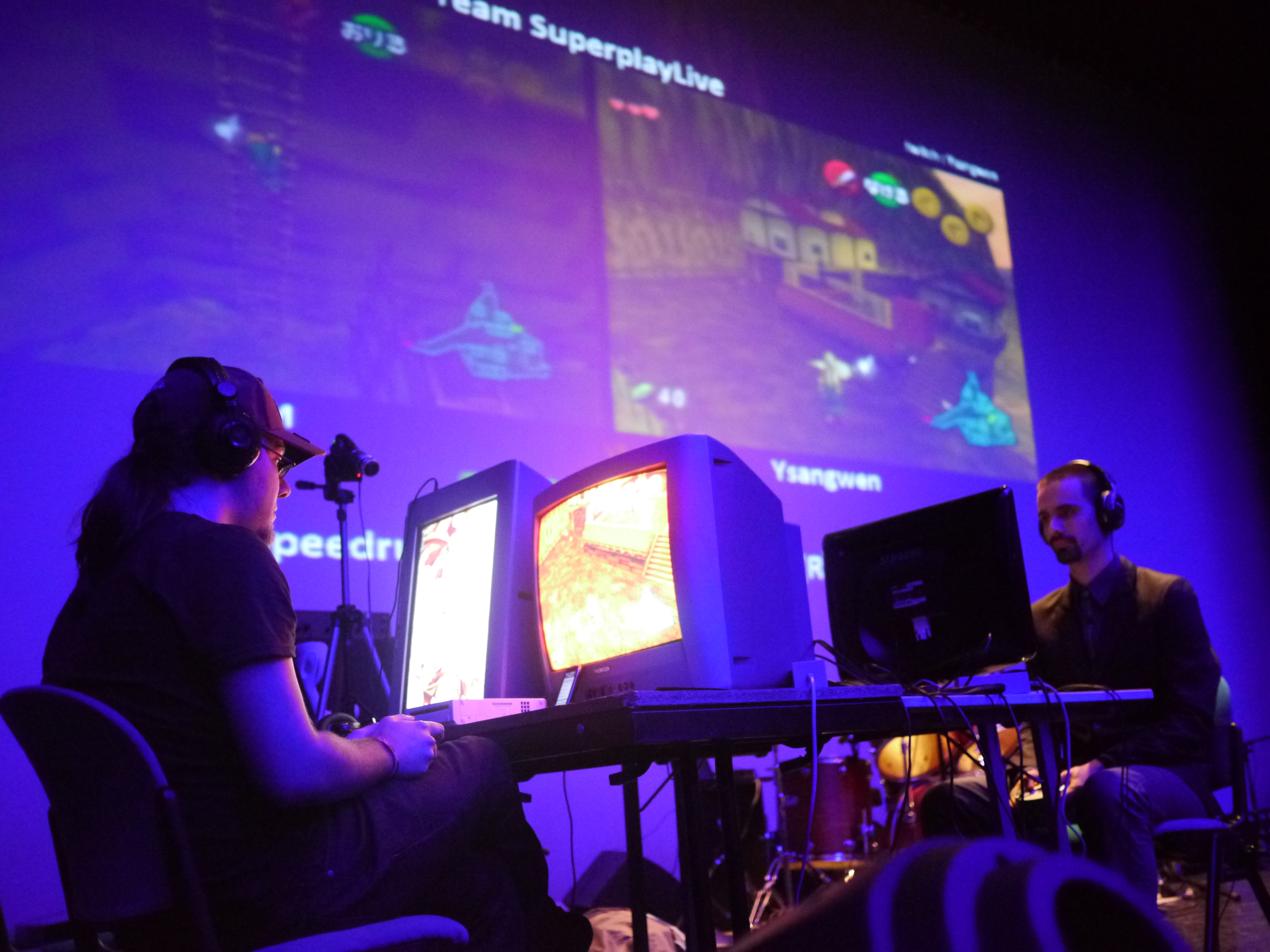 Mang'Azur festival of Toulon - official site